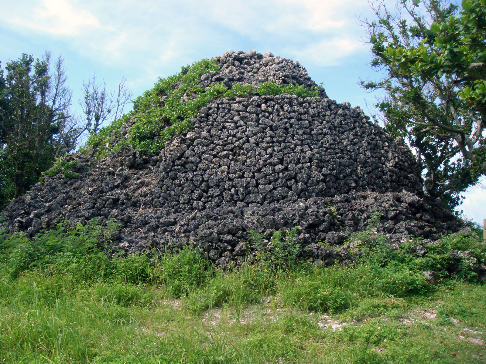 Puzumari, Kuroshima Island, Taketomi Town, Okinawa Prefecture